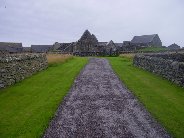 Oransay Priory, an Augustinian monastic community on the island of Oronsay, Inner Hebrides.